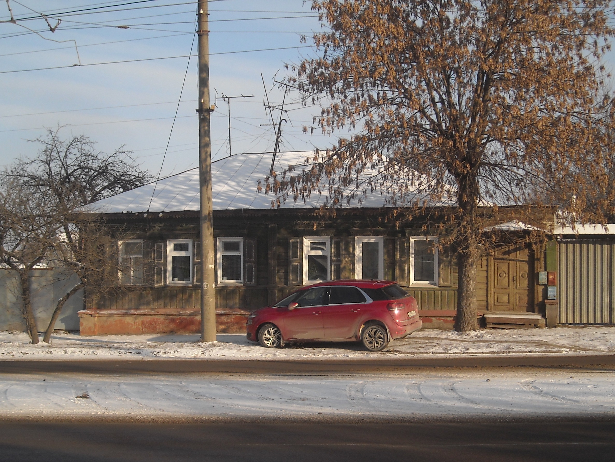 Old wooden house with Carved wooden windows. Russia, Oryol, 1 Kurskaya street, No. 31